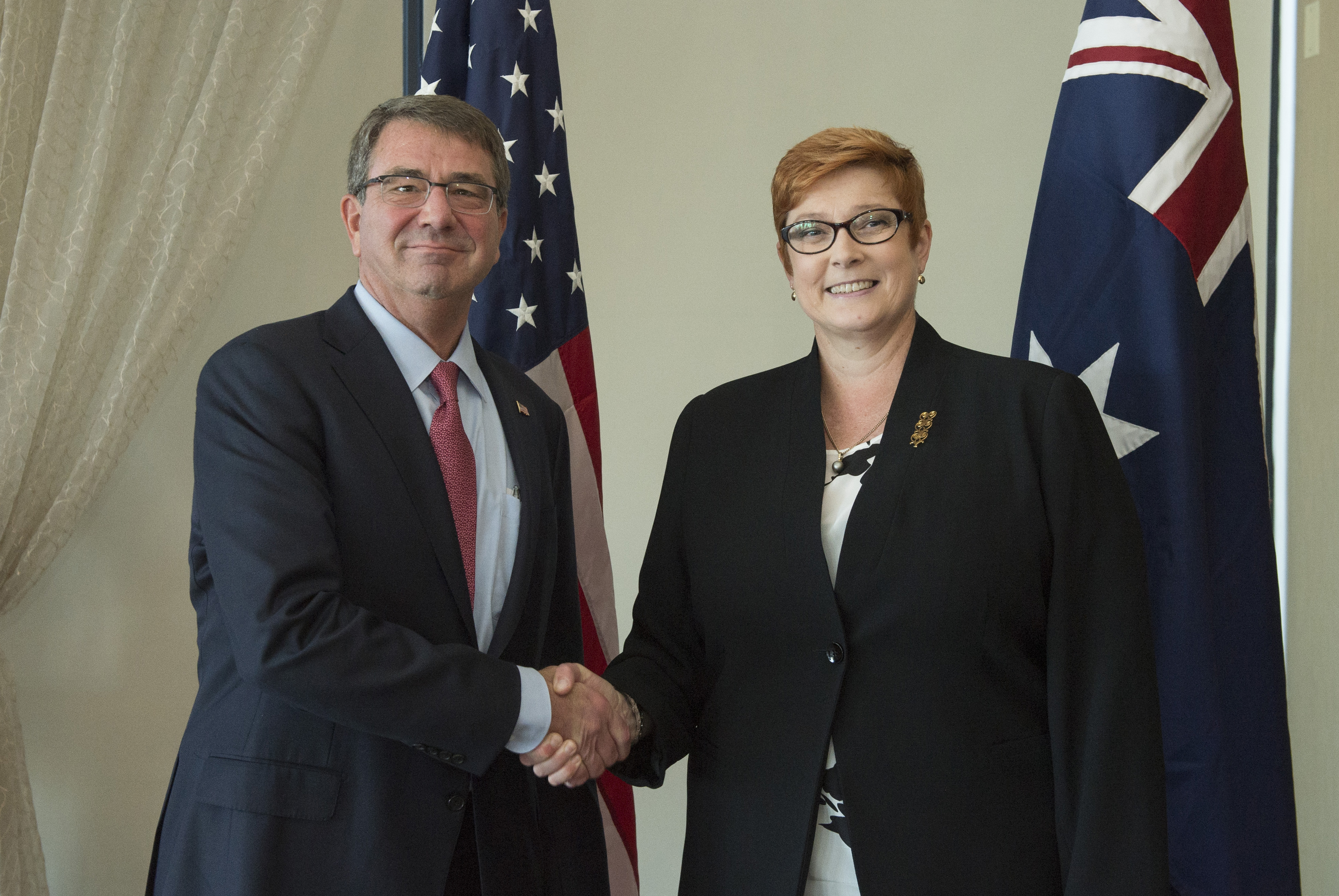 Secretary of Defense Ash Carter poses for a photo with Australian Minister for Defence Marise Payne in Boston Oct. 12, 2015 as part of the Australia–US Ministerial Consultations. The two leaders met and discussed matters of mutual importance. (Photo by Senior Master Sgt. Adrian Cadiz)(Released)